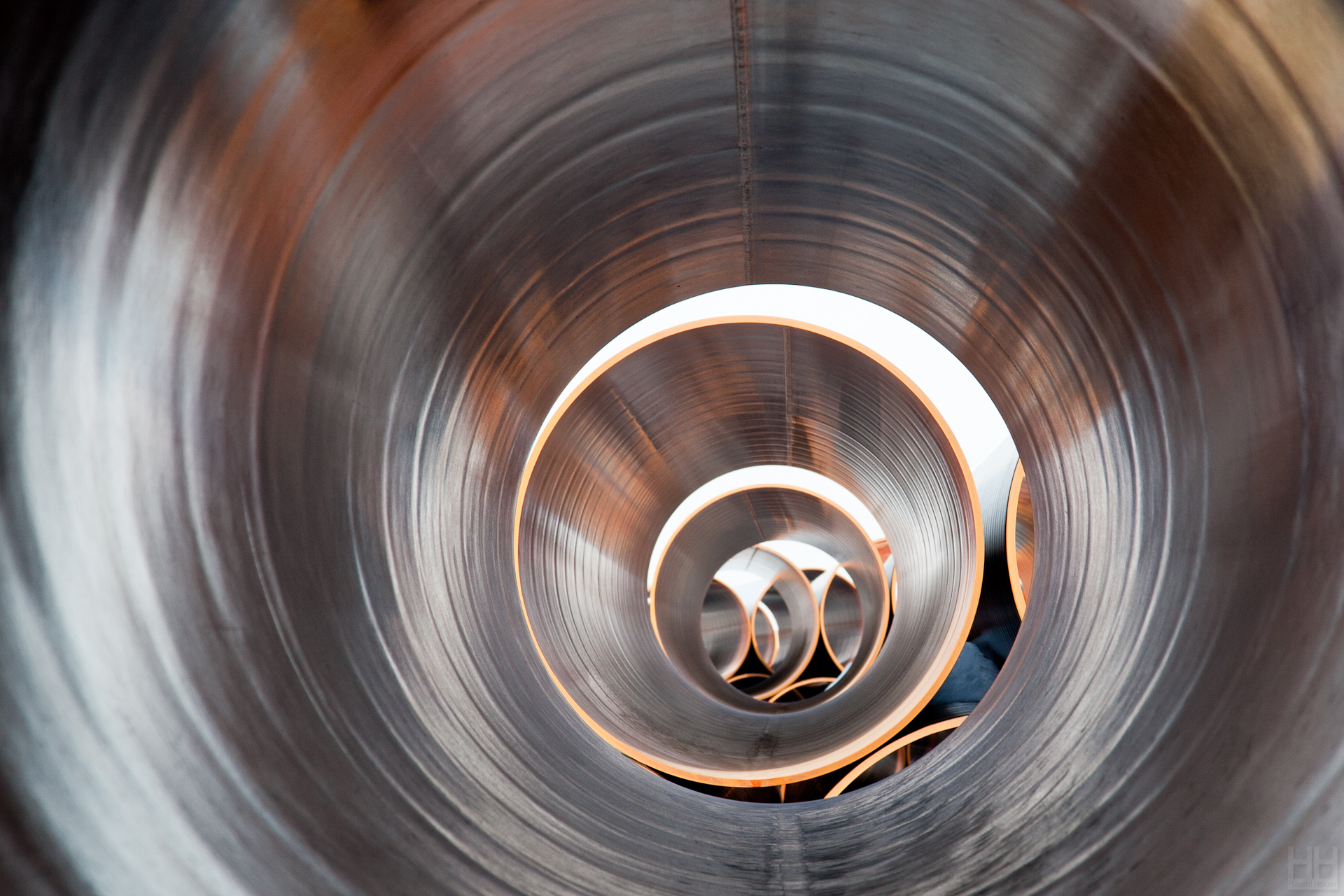 These are pipes for a natural gas pipeline, that will connect Russia and Germany.